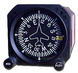 drectional gyro.